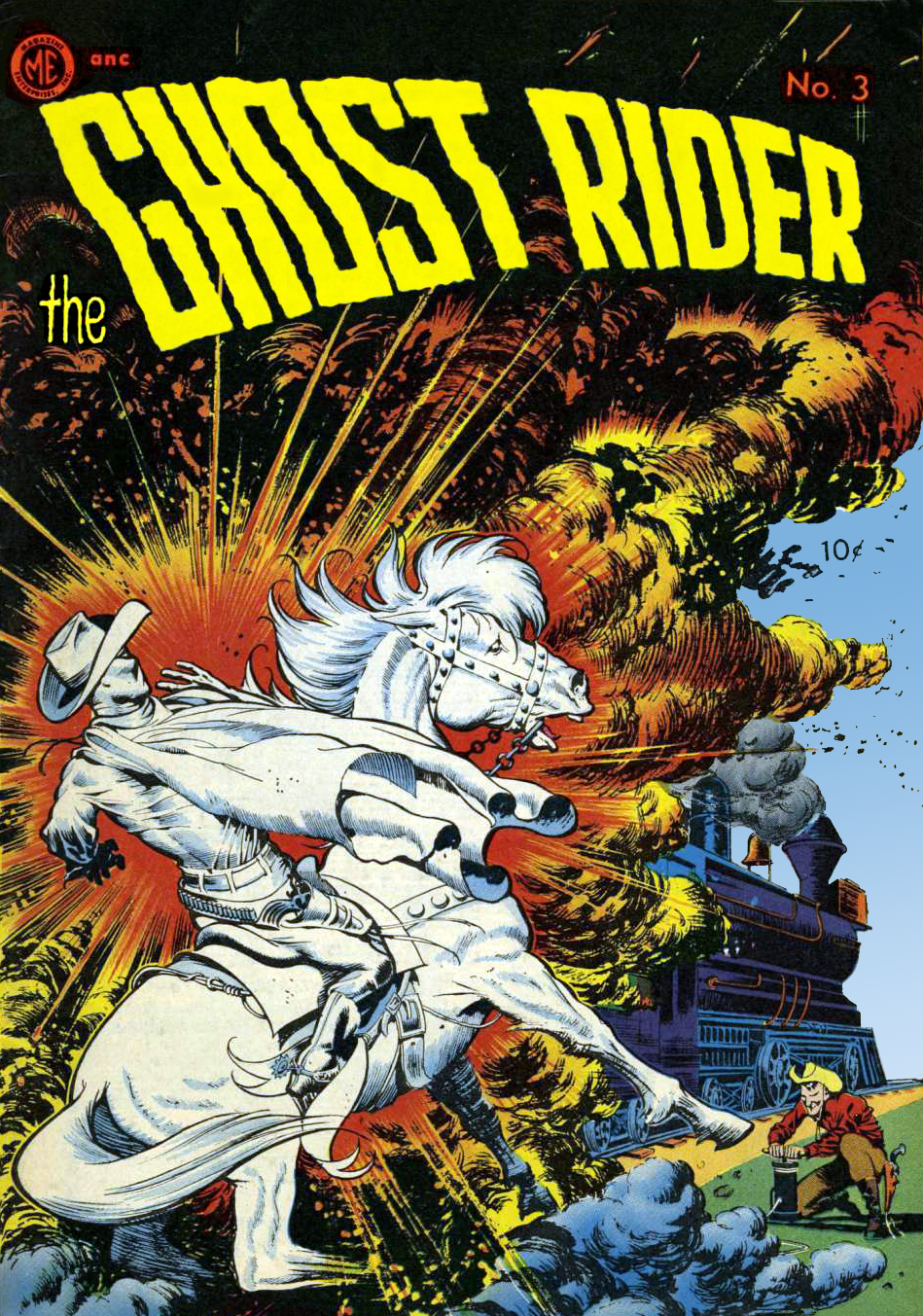 Spectacular cover illustration for Ghost Rider number 3 by the incomparable Frank Frazetta. Published by Magazine Enterprises, 1951.